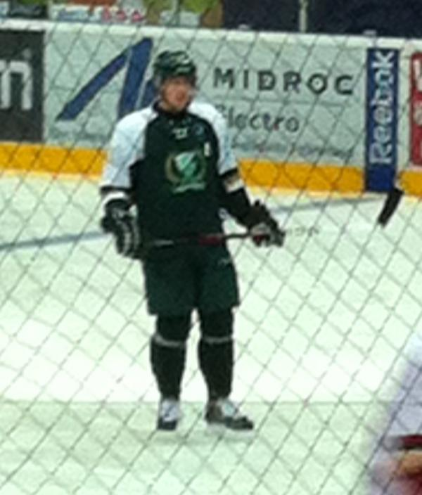 Anders Bastiansen during a game against Frölunda HC in European Trophy 2012.